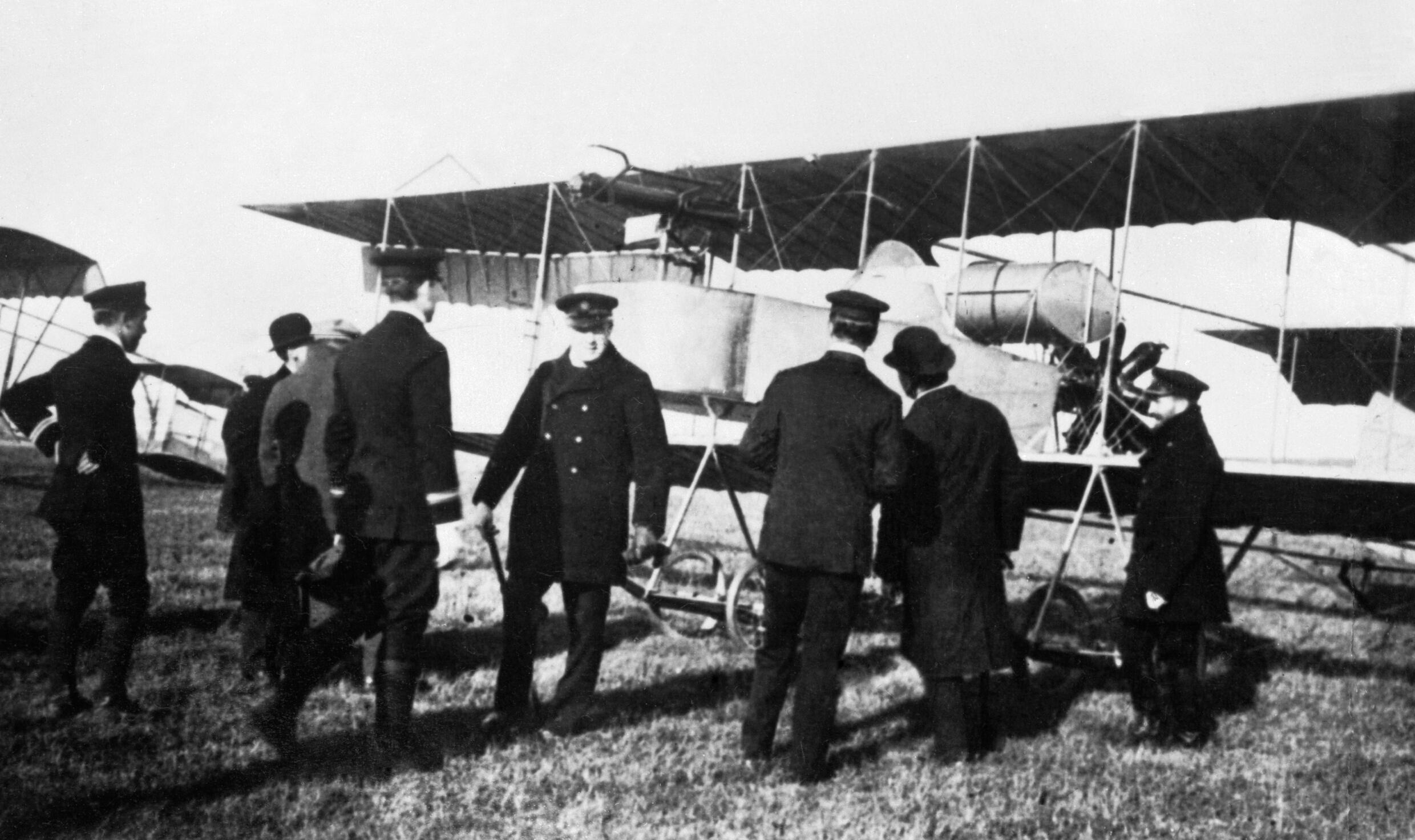 Winston Churchill With Naval Wing of the Royal Flying Corps, 1914. First Lord of the Admiralty, Winston Churchill (centre, facing camera), stands in front of Short Type S.38 Biplane (a.k.a. Short S.77), No. 66, of the Naval Wing of the Royal Flying Corps, during a visit to Eastchurch, Kent. No. 66, seen here with a Vickers Maxim gun fitted on the front of the gondola, was used for experimental gun and wireless installation tests at Eastchurch. On the extreme right stands Commander C R Samson, Commanding Officer of the Eastchurch Naval Flying School. The Naval Wing of the RFC was renamed the Royal Naval Air Service on 1 July 1914.